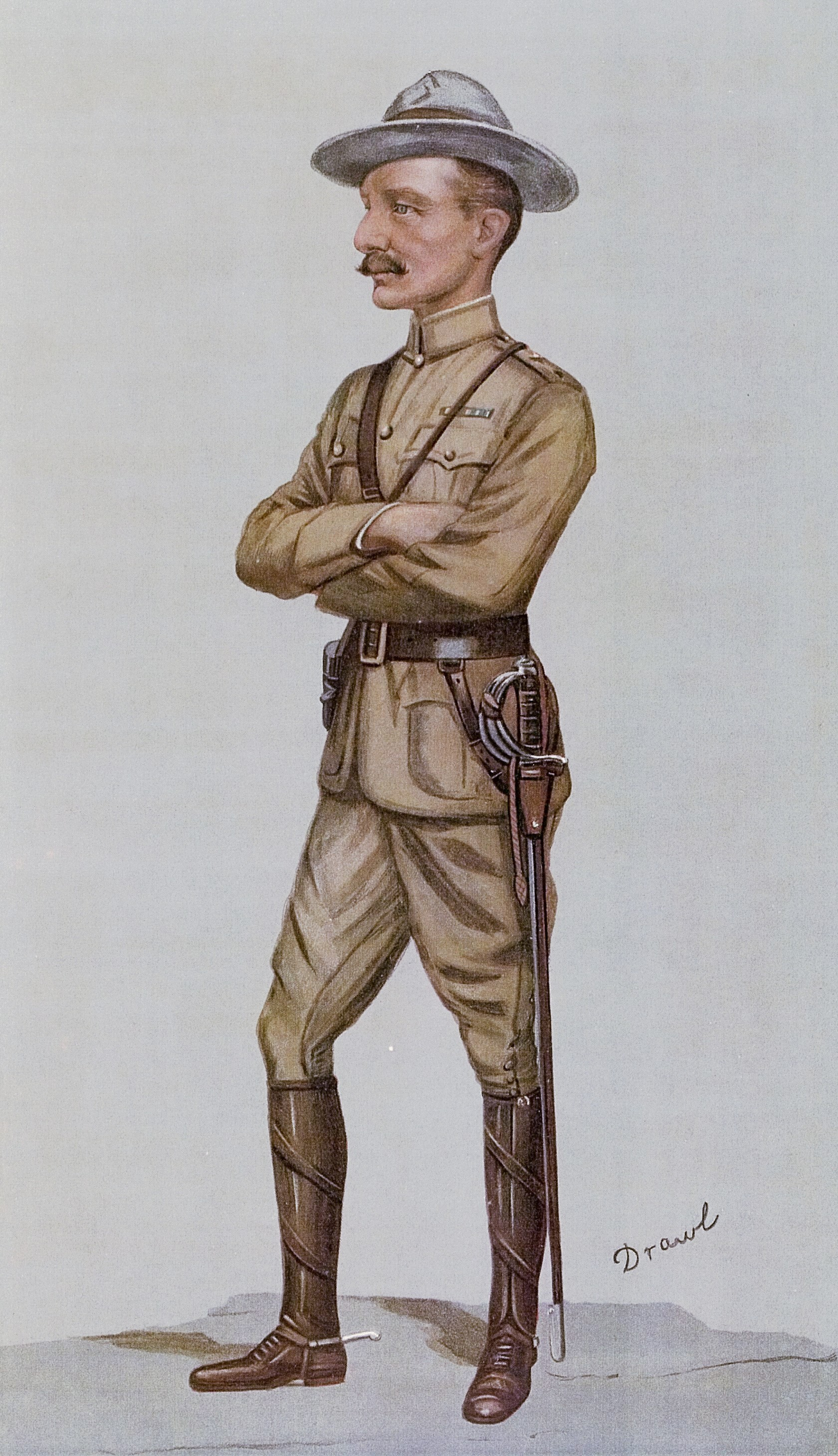 Caricature of Robert Baden Powell. Caption read "Mafeking".